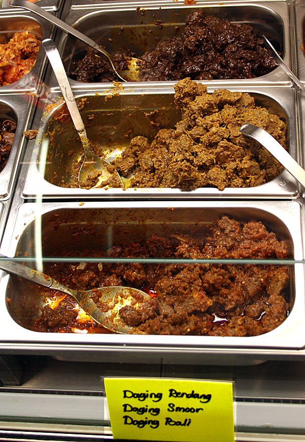 Semur (Dutch: Smoor) Daging - A type of stew of beef braised in sweet soy sauce; Daging Bali - Beef stew in shallot & lemongrass sambal of Bali origin; Rendang - Famous slow cooked beef dish of Minangkabau origin.